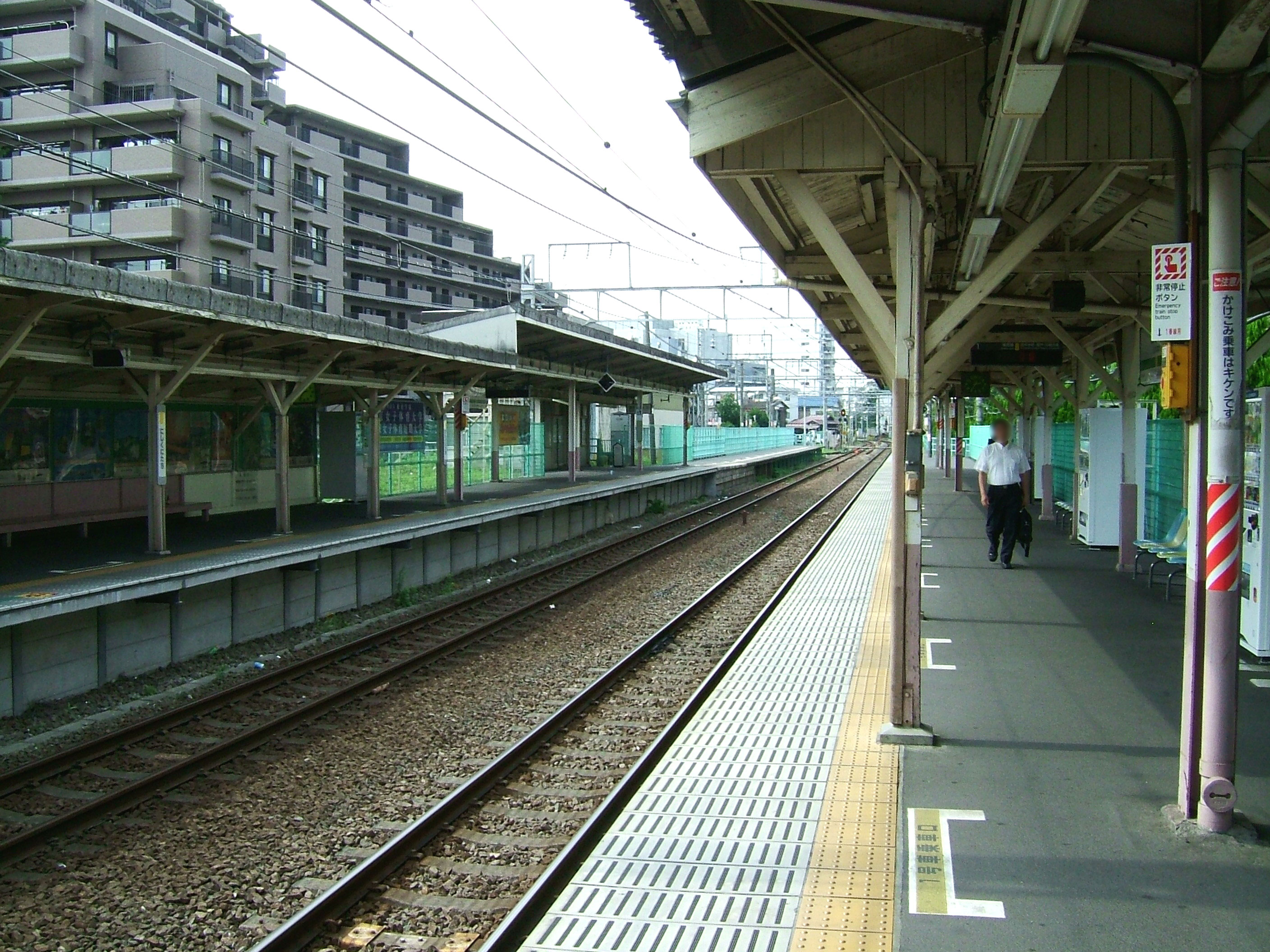 Nishi-Kunitachi Station platform (East Japan Railway Nambu Line)